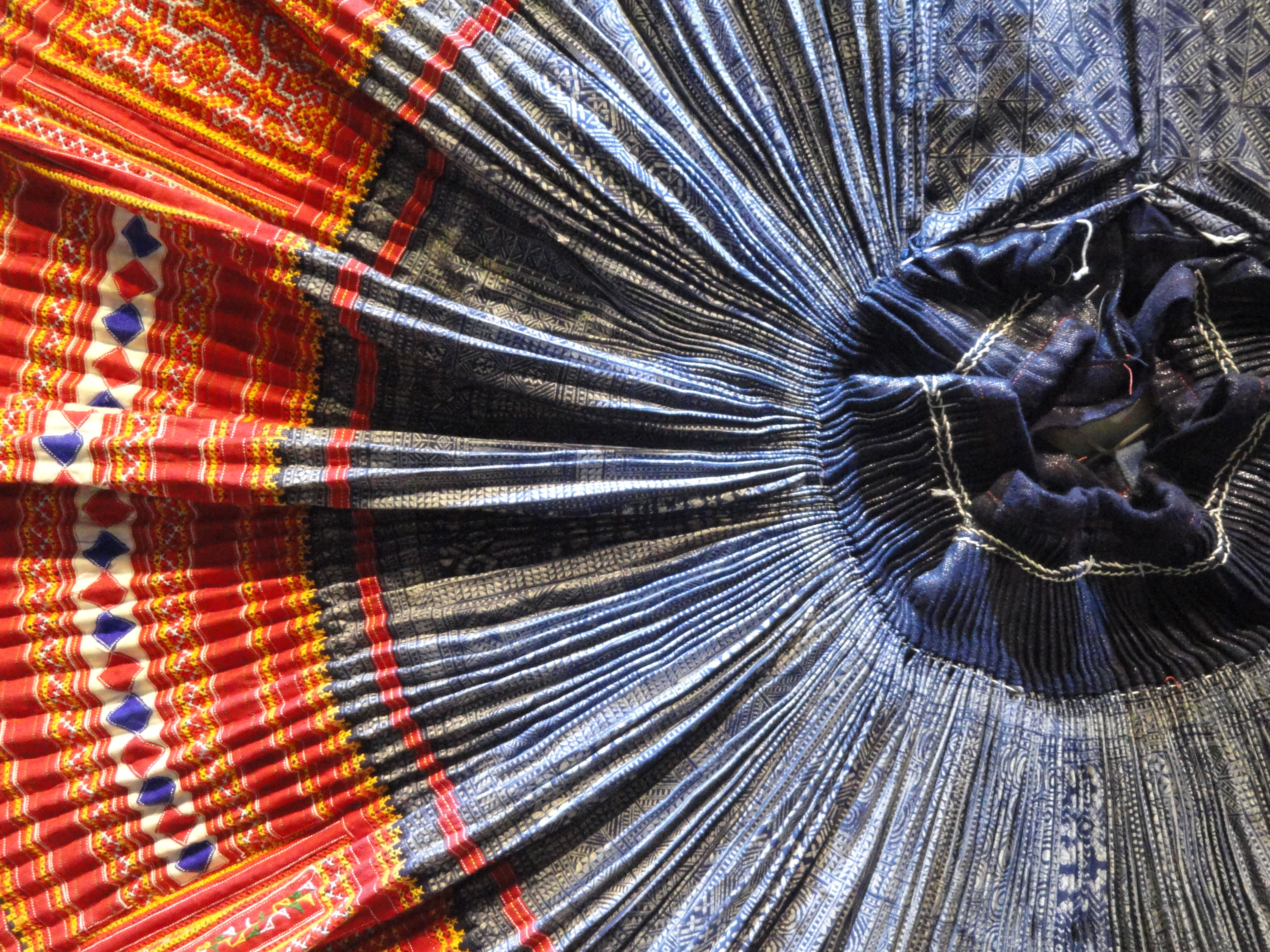 Miao skirt. Clothing in the Yunnan Provincial Museum, Kunming, Yunnan, China.